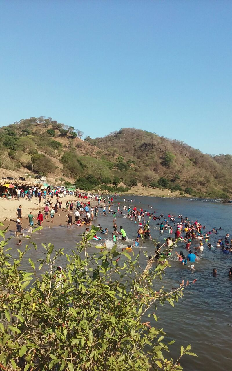 Río lempa virginia puerto las flores en verano